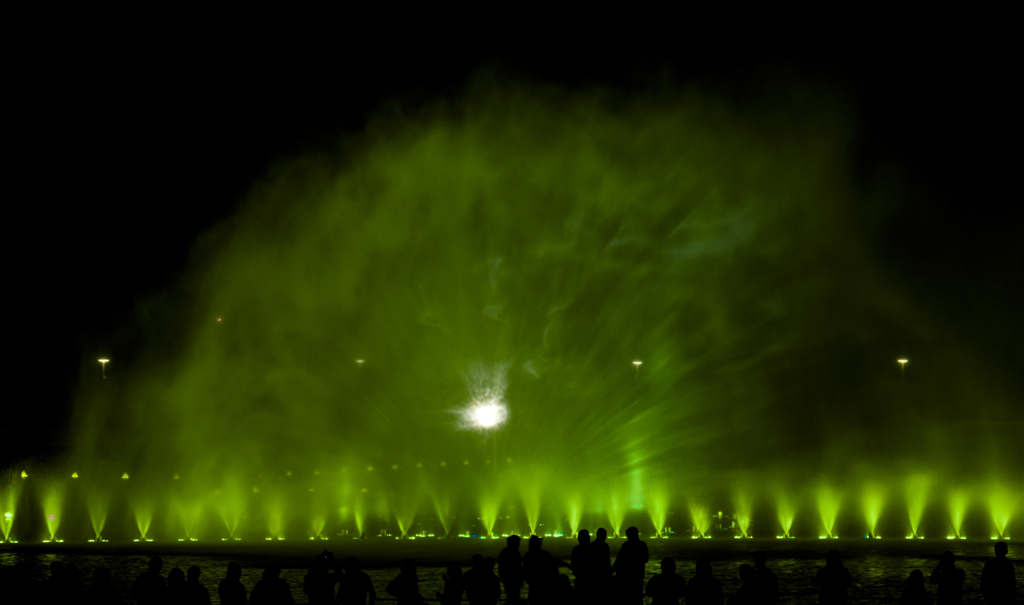 Wrocław Fountain